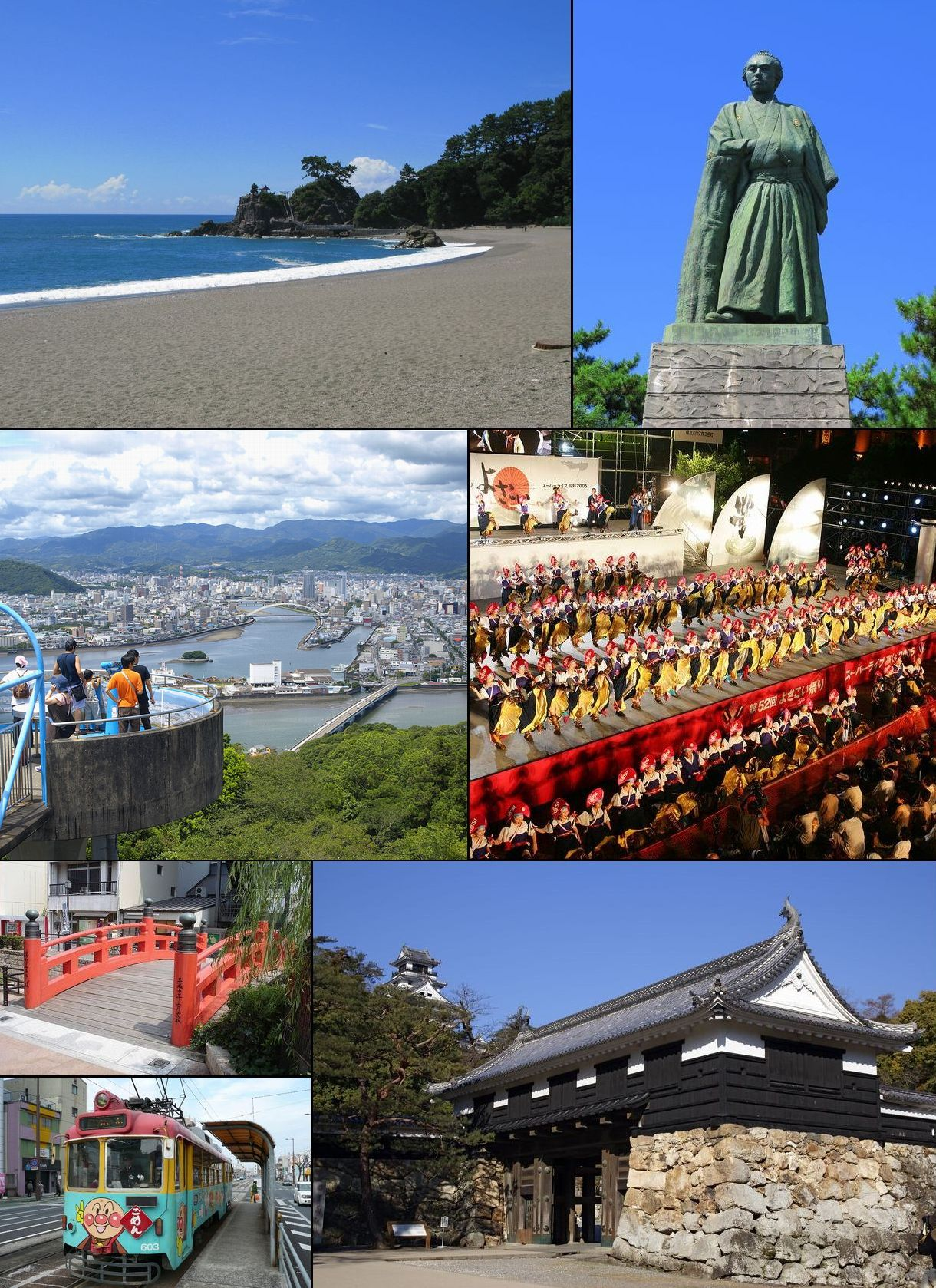 Kochi City, JAPAN From top left:Katsurahama, Statue of Sakamoto Ryoma, View of Kochi from Godaisan Hill, Yosakoi Festival, Harimayabashi Bridge, Tosa Electric Railway, Kochi Castle